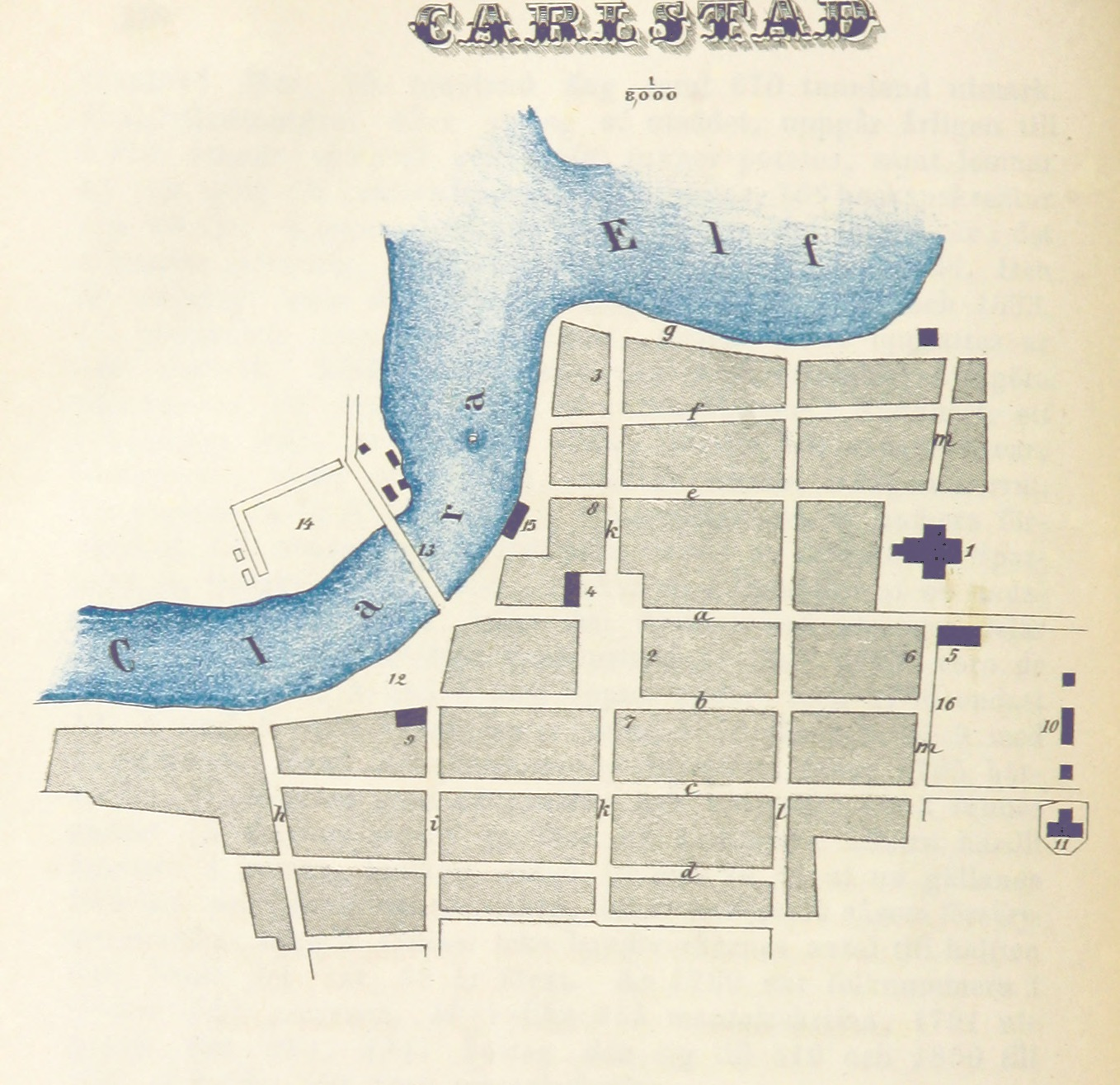 View this map on the BL Georeferencer service. Image taken from: Title: "Försök till beskrifning öfver Sveriges städer i historiskt, topografiskt och statistiskt hänseende, efter de bästa tryckta källor samt med många tillägg" Author: RUDBECK, Thure Gustaf - Customs Officer Shelfmark: "British Library HMNTS 10281.d.24." Page: 264 Place of Publishing: Stockholm Date of Publishing: 1855 Issuance: monographic Identifier: 003183062 Explore: Find this item in the British Library catalogue, 'Explore'. Download the PDF for this book (volume: 0) Image found on book scan 264 (NB not necessarily a page number) Download the OCR-derived text for this volume: (plain text) or (json) Click here to see all the illustrations in this book and click here to browse other illustrations published in books in the same year. Order a higher quality version from here. This file has been provided by the British Library from its digital collections. This file is from the Mechanical Curator collection, a set of over 1 million images scanned from out-of-copyright books and released to Flickr Commons by the British Library. Please add the Flickr page URL for the image Please add the British Library system number for the book This tag does not indicate the copyright status of the attached work. A normal copyright tag is still required. See Commons:Licensing.